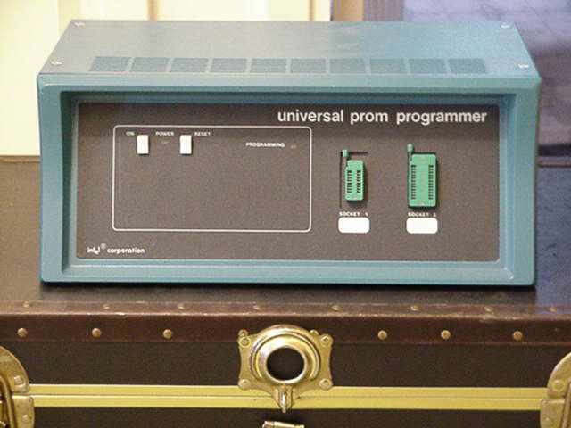 Universal Prom Programmer.jpg